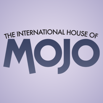 Logo for the website, The International House of Mojo.